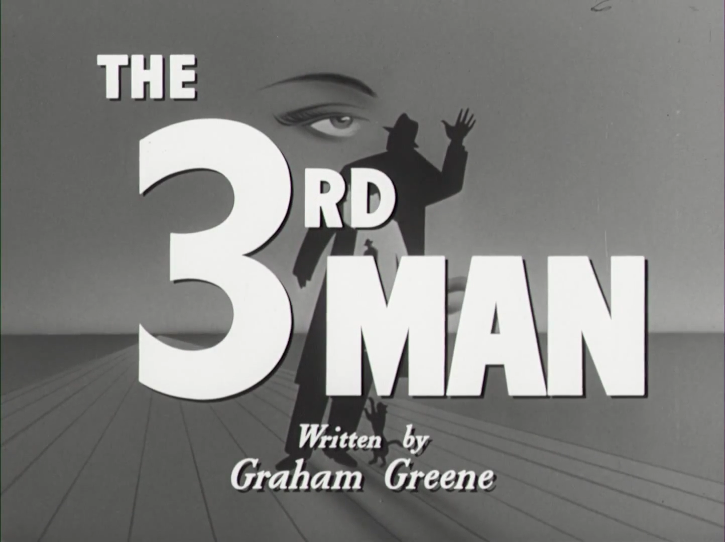 Screenshot taken by me (Mayimbú) from the U.S. trailer to the movie The Third Man.